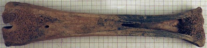 Bone skate from Birka, Sweden. Cattle, metatarsus III-IV. Length 211 mm. Gliding face worn out. Early Viking Age.